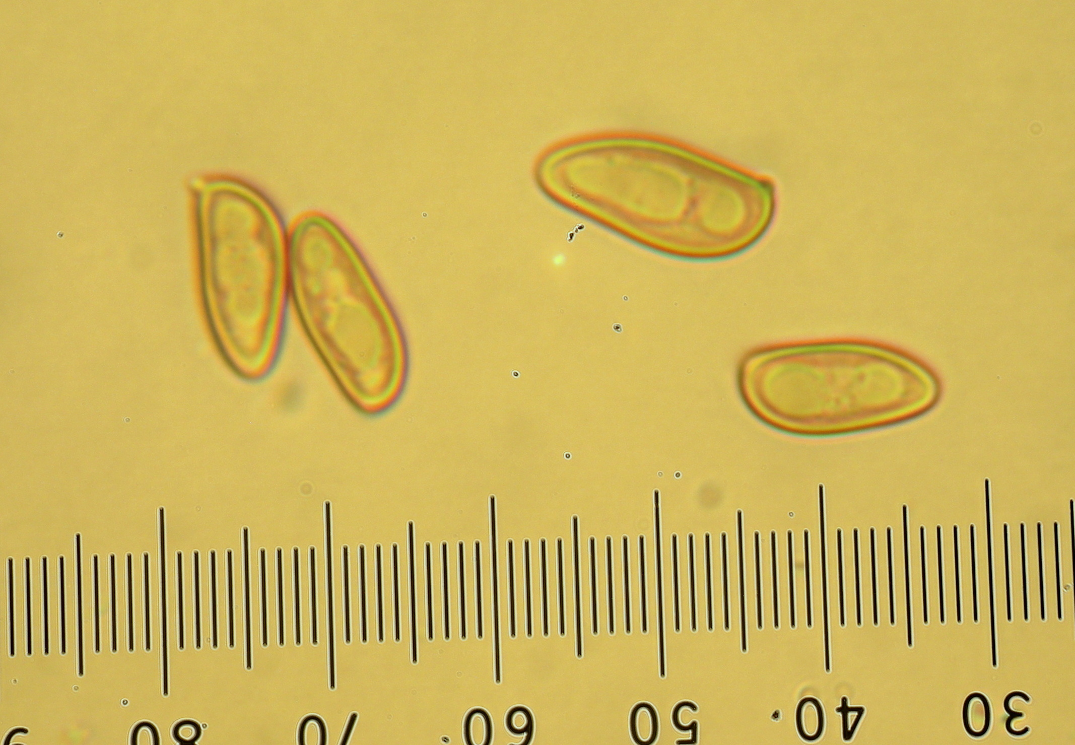 Phylloporus boletinoides A. H. Smith and Thiers Anmerkungen: These are a first for me and the only place I could find any information on them was in the Bessette and Roody books. The flesh does turn slowly grayish in the older specimens and the “pores” stain a little bluish-green. 5-29-2012; adding micro photos of spores and measurements….~ 10.0-14.2 X 5.1-6.9(8.0) microns.